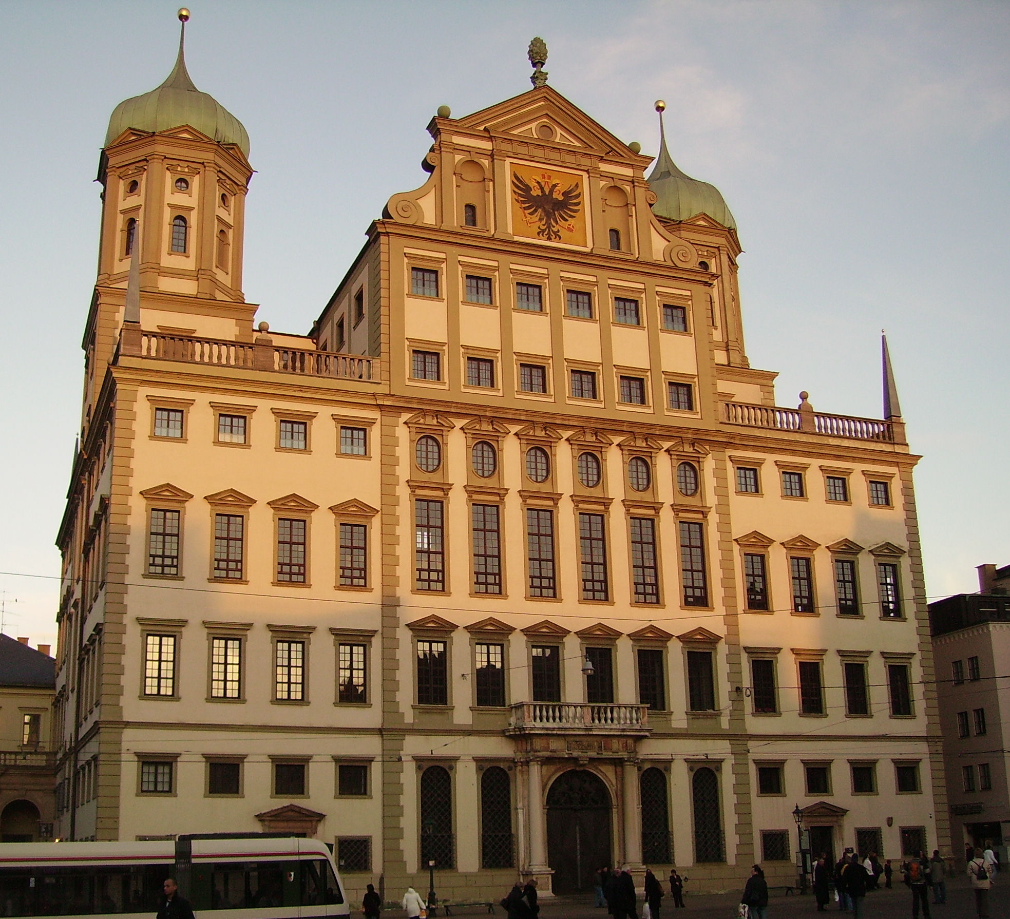 townhall of Augsburg, Germany